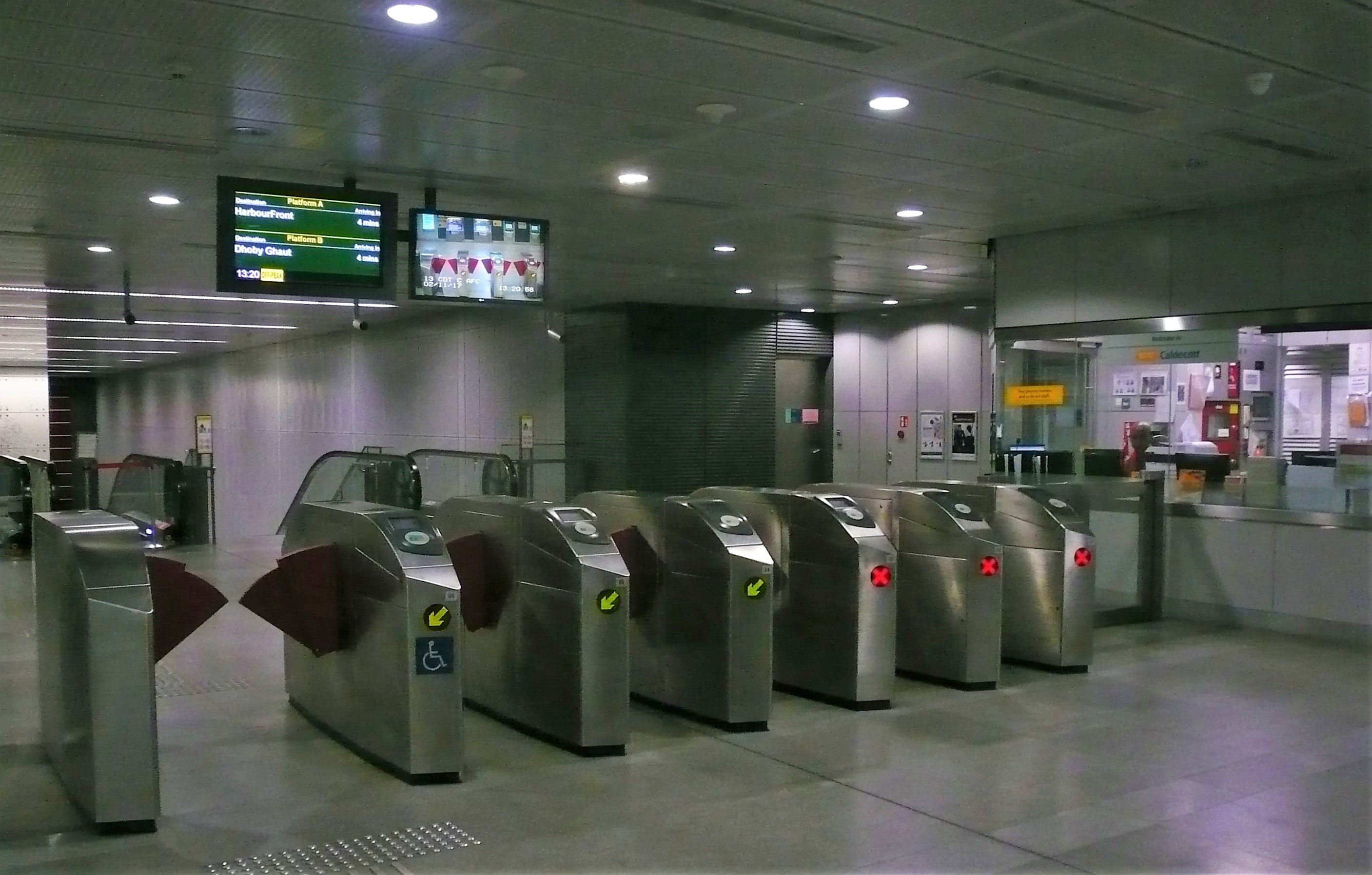 Concourse level of Caldecott station